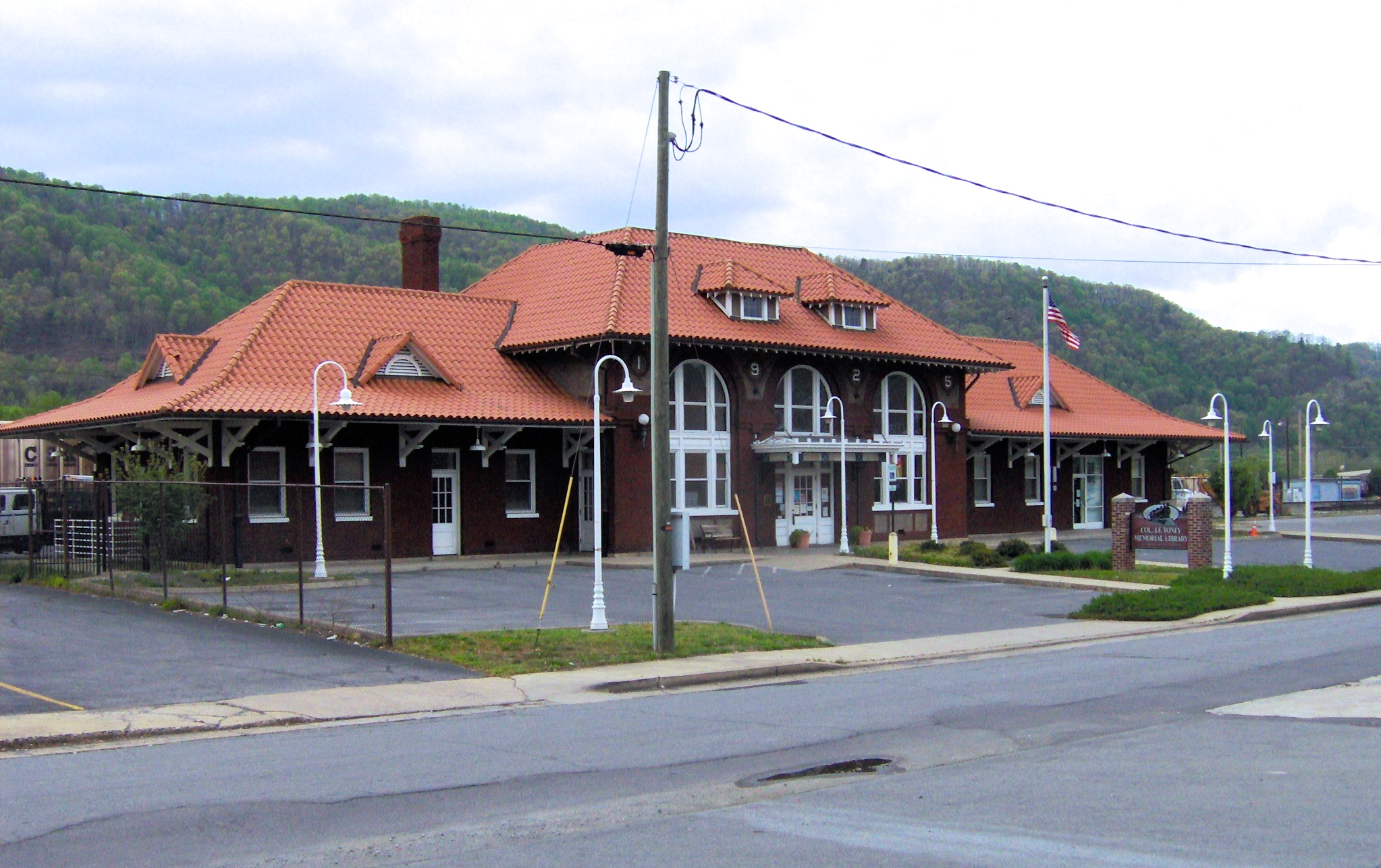 The Clinchfield Depot, now home to the J.F. Toney Memorial Public Library, in Erwin, Tennessee, USA.